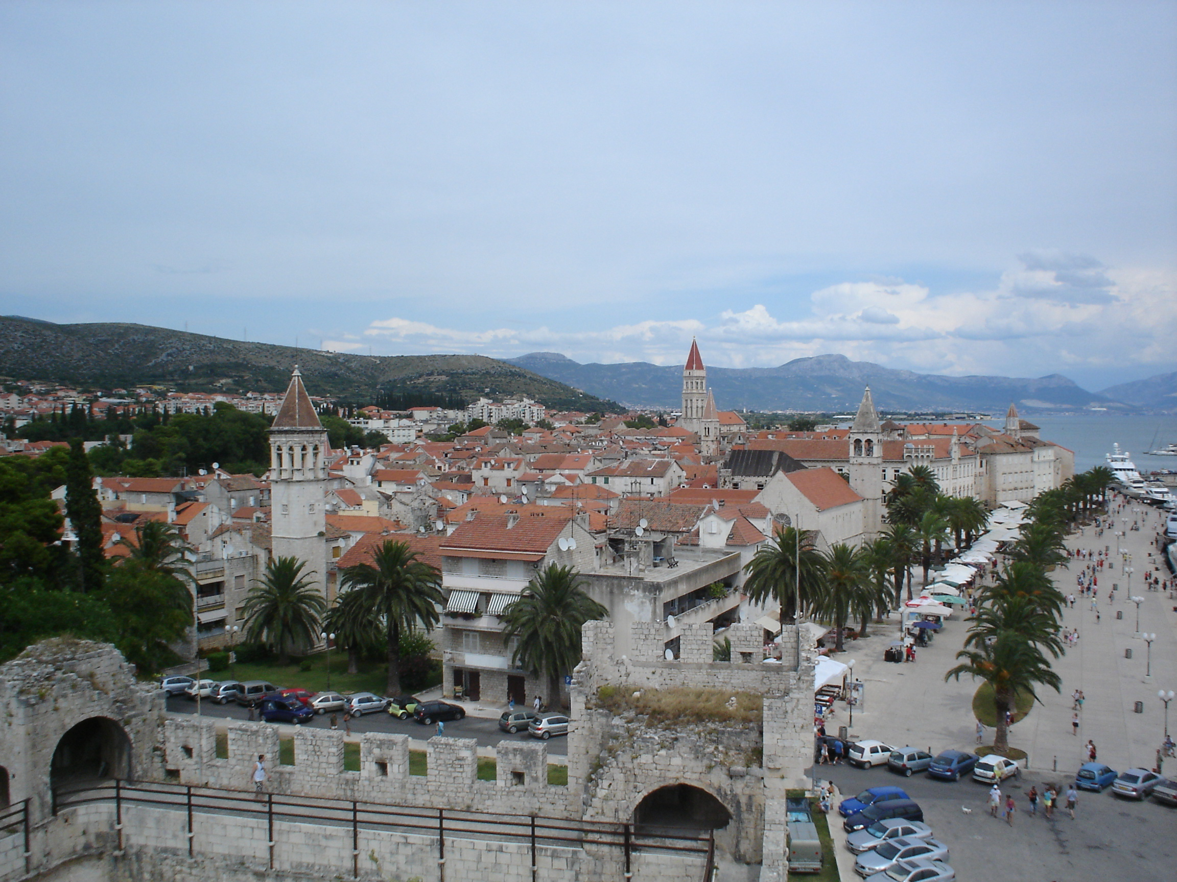 Trogir (Croatia) skyline.